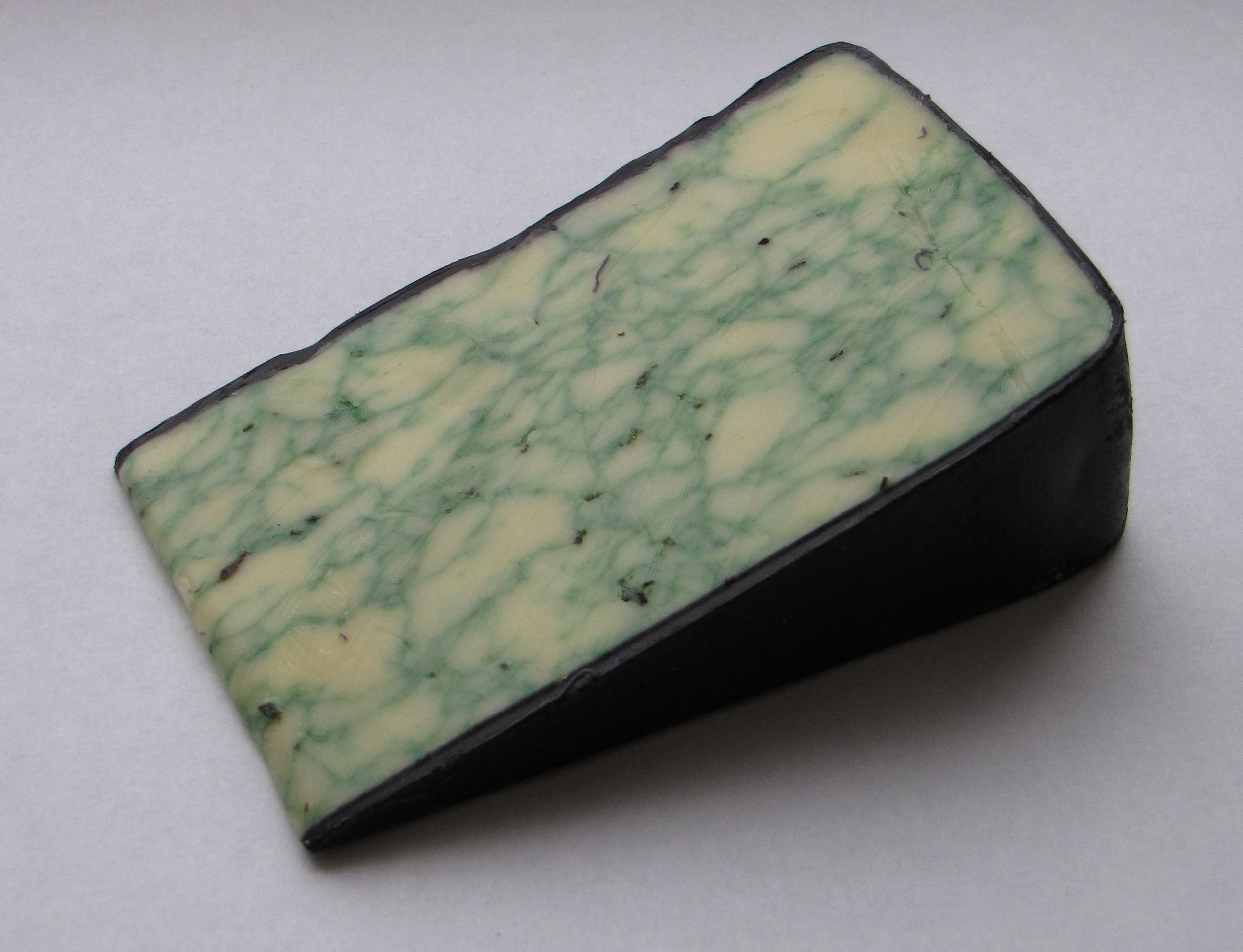 English Sage Derby cheese with wax covering